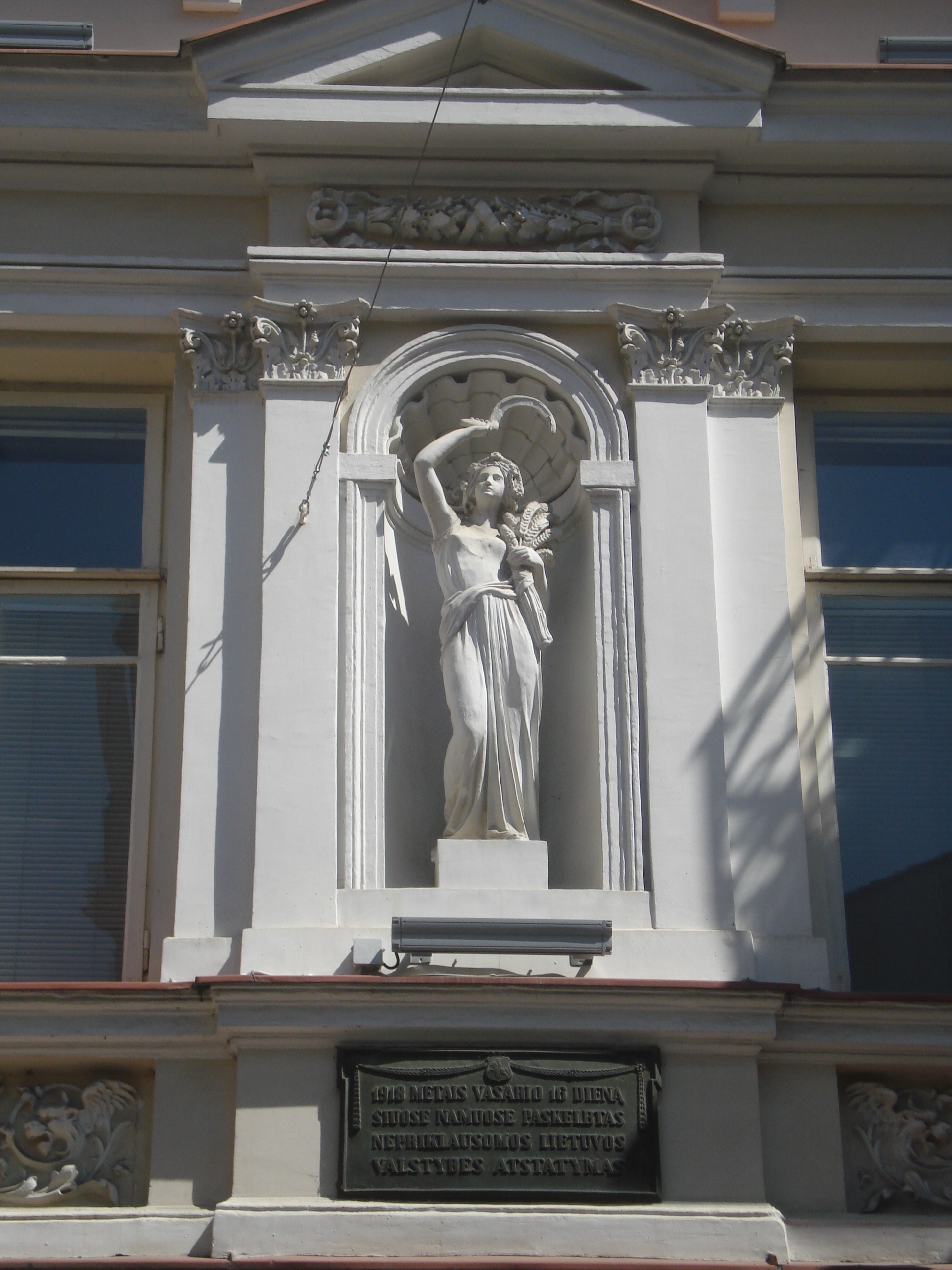 House of Signatories in Vilnius. Detail